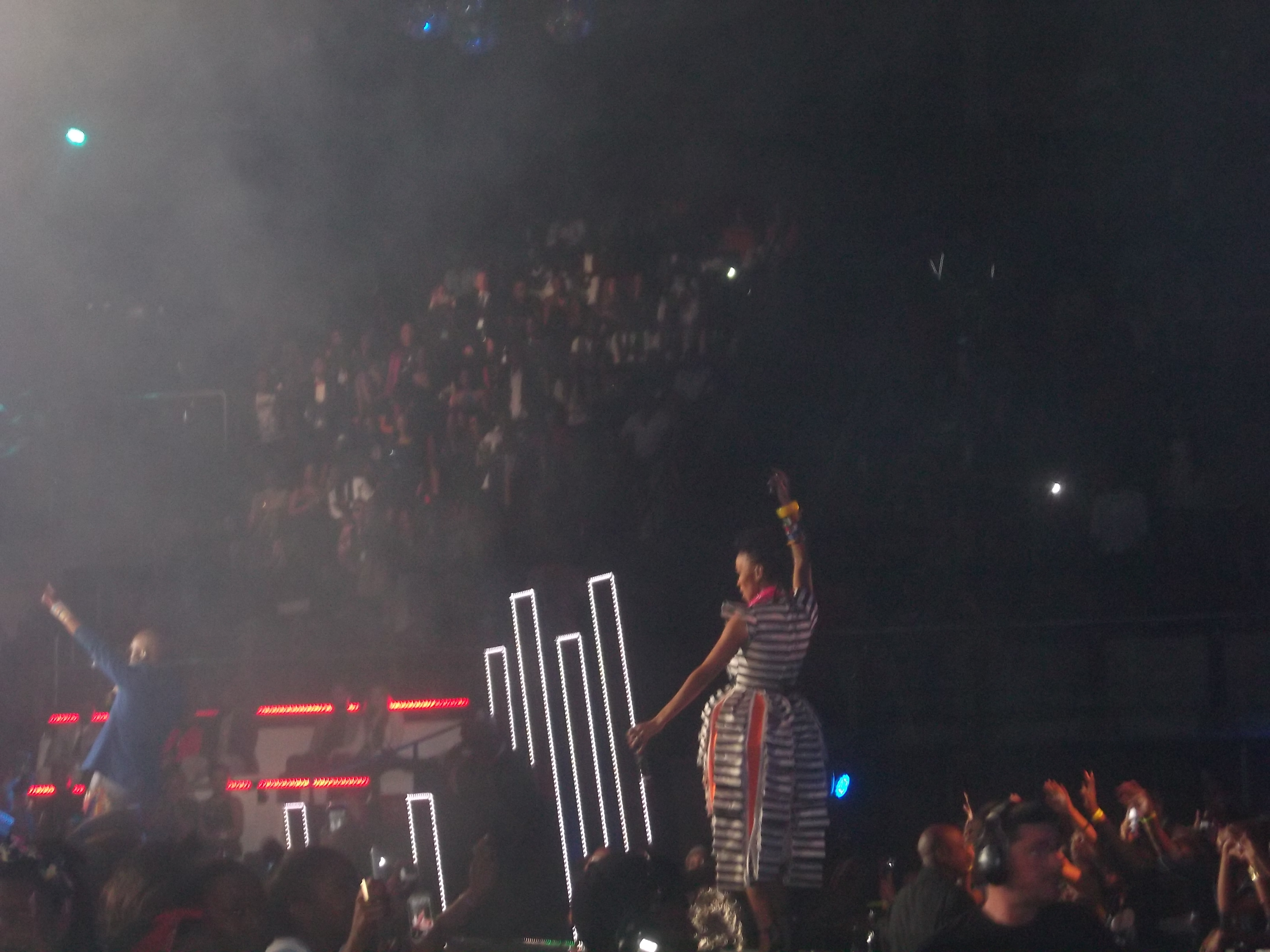 Durban ICC